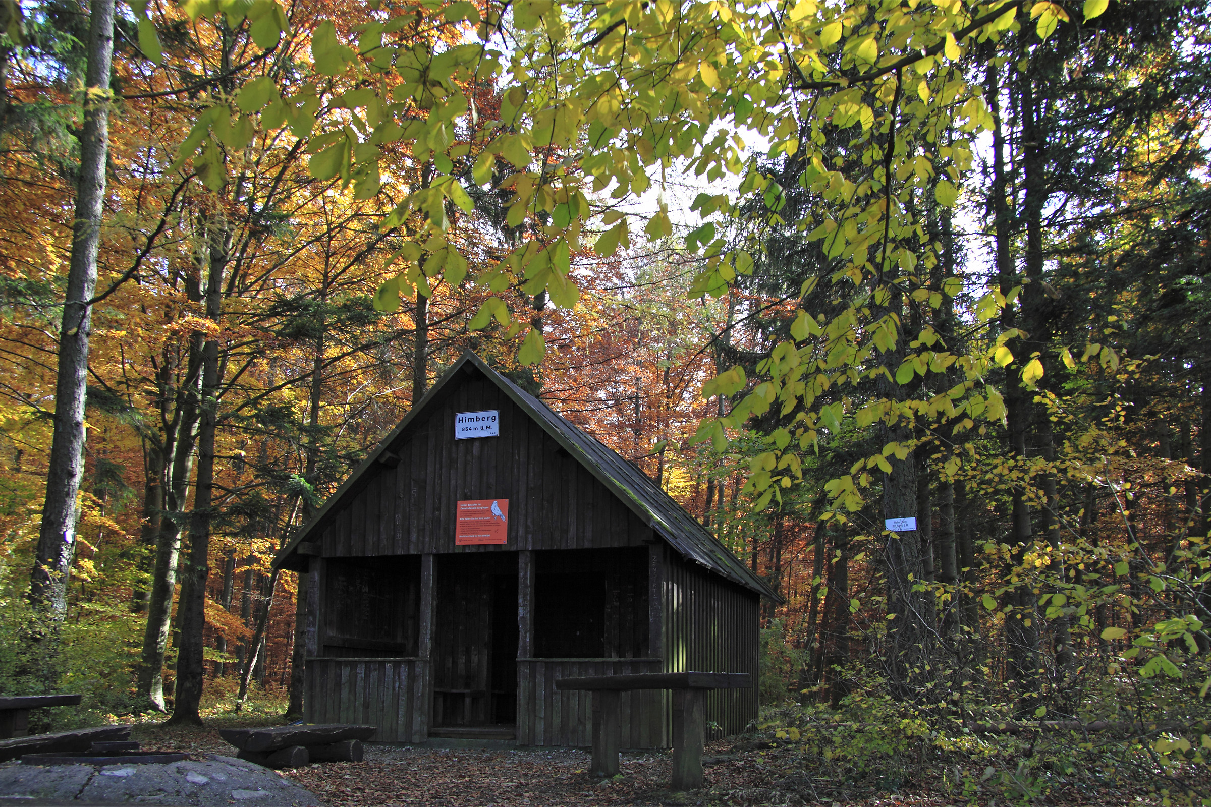 Himberg (854m), Swabian Alb mountains, Zollernalbkreis Germany